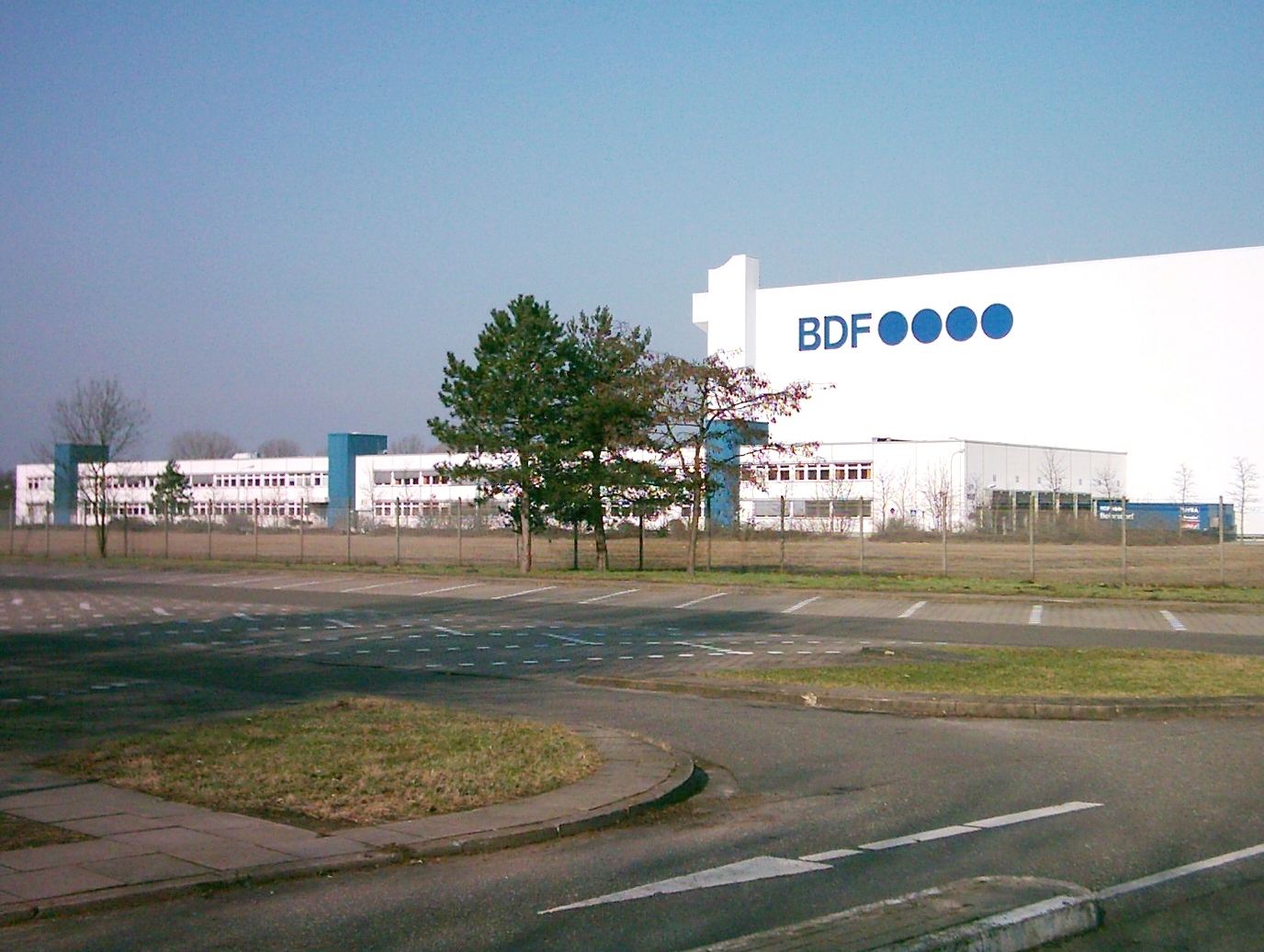 Beiersdorf AG (BDF) in Hamburg-Hausbruch, Germany.